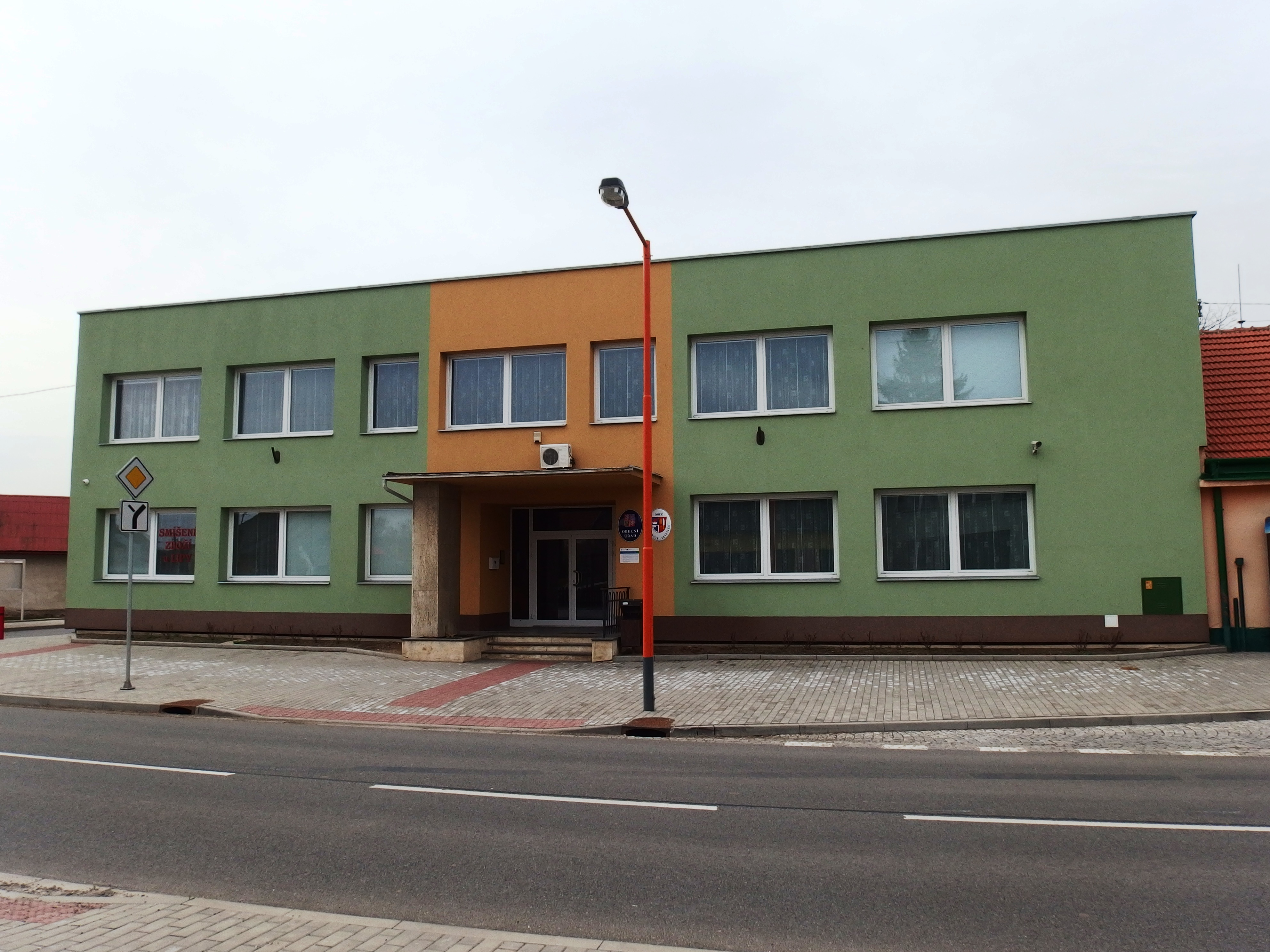 Počenice-Tetětice, Kroměříž District, Czech Republic, part Počenice.